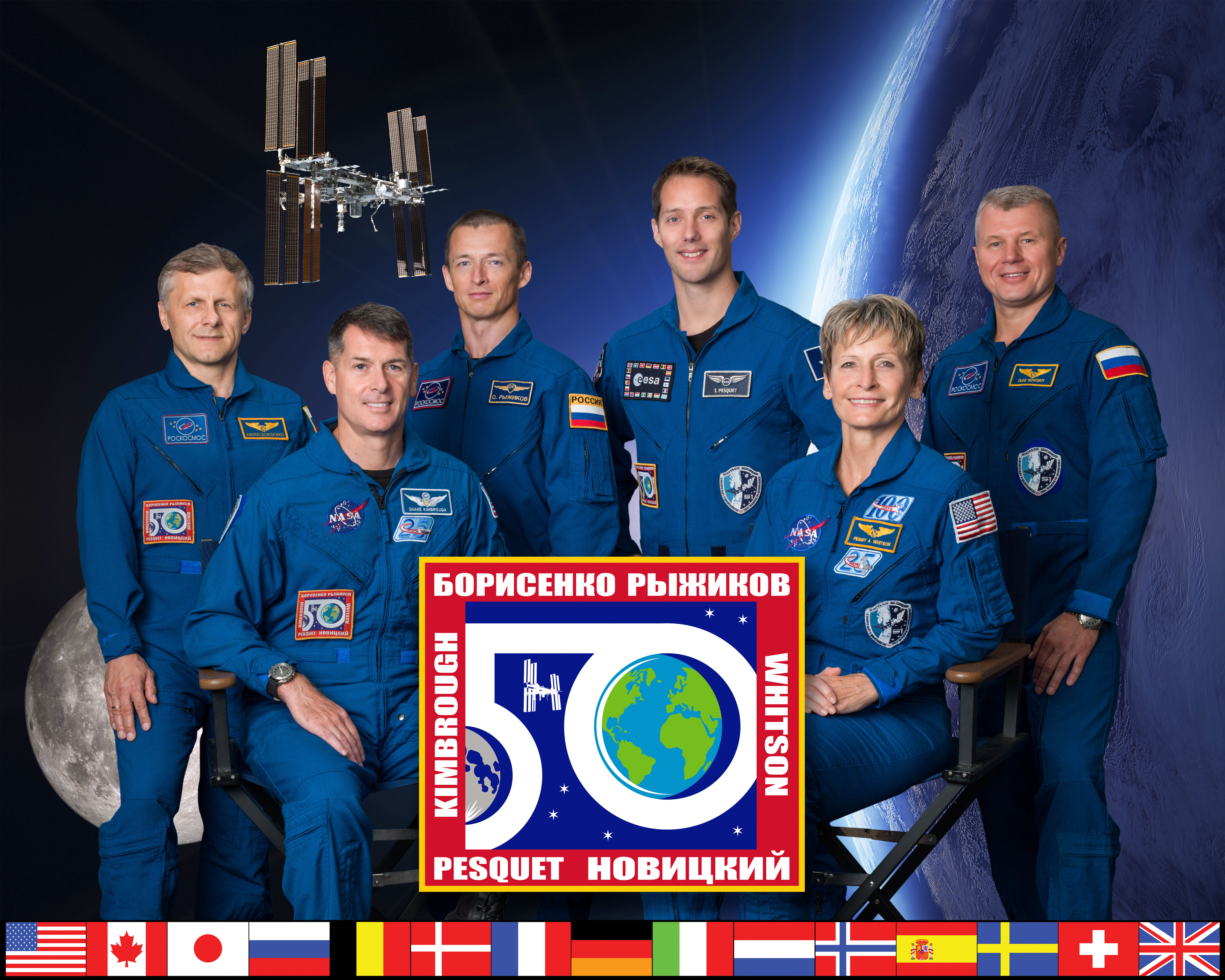 Expedition 50 official crew portrait with (from left) Andrei Borisenko, Shane Kimbrough, Sergei Ryzhikov, Thomas Pesquet, Peggy Whitson and Oleg Novitsky.